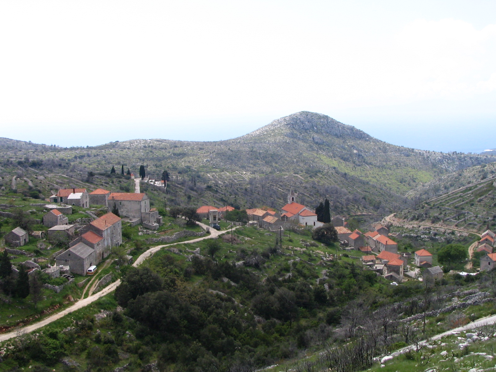 Island of Hvar (Croatia). Own photo.